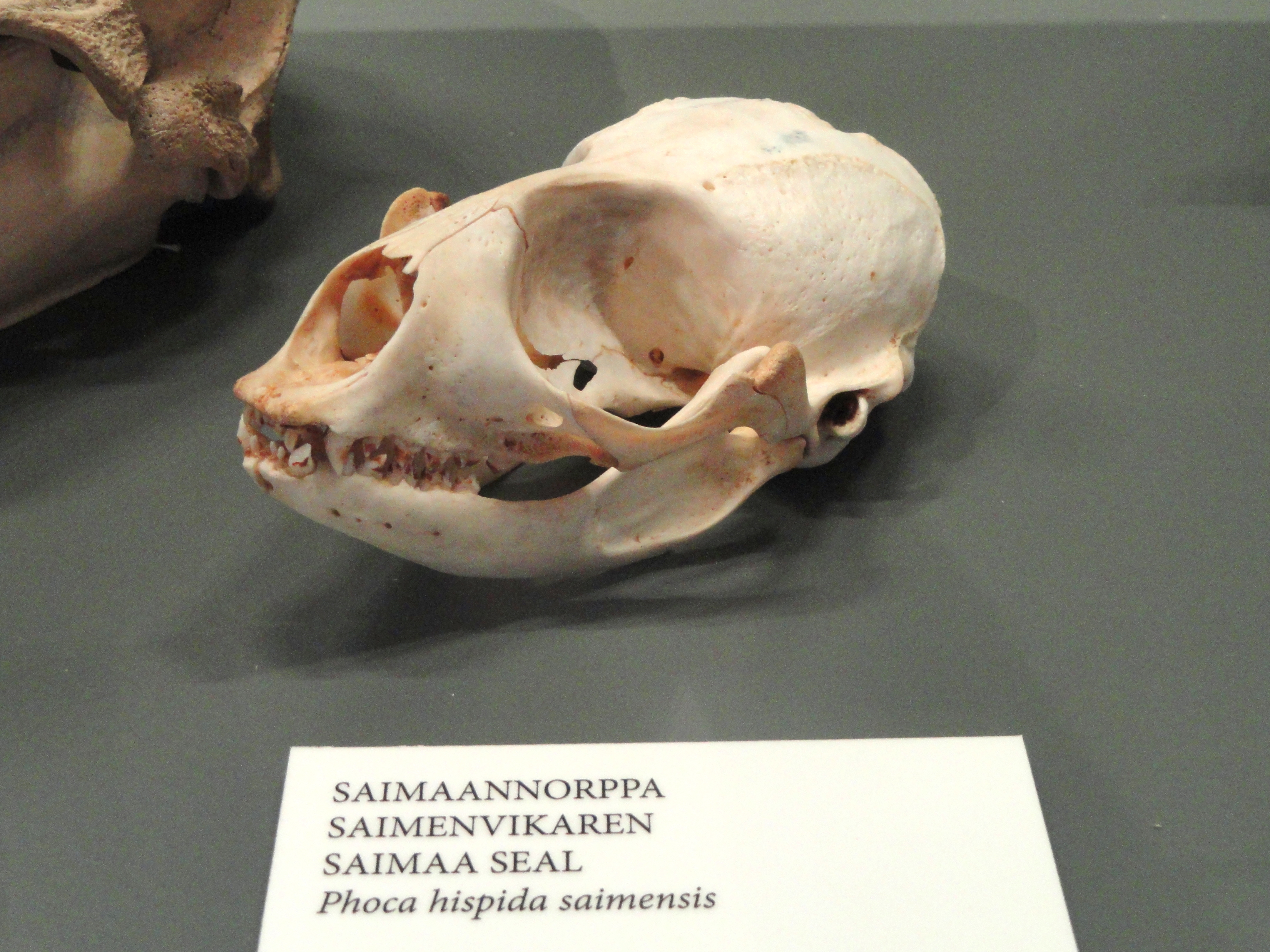 Exhibit in the Finnish Museum of Natural History, Helsinki, Finland.